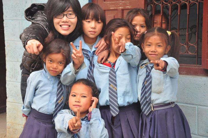 GNC in Nepal